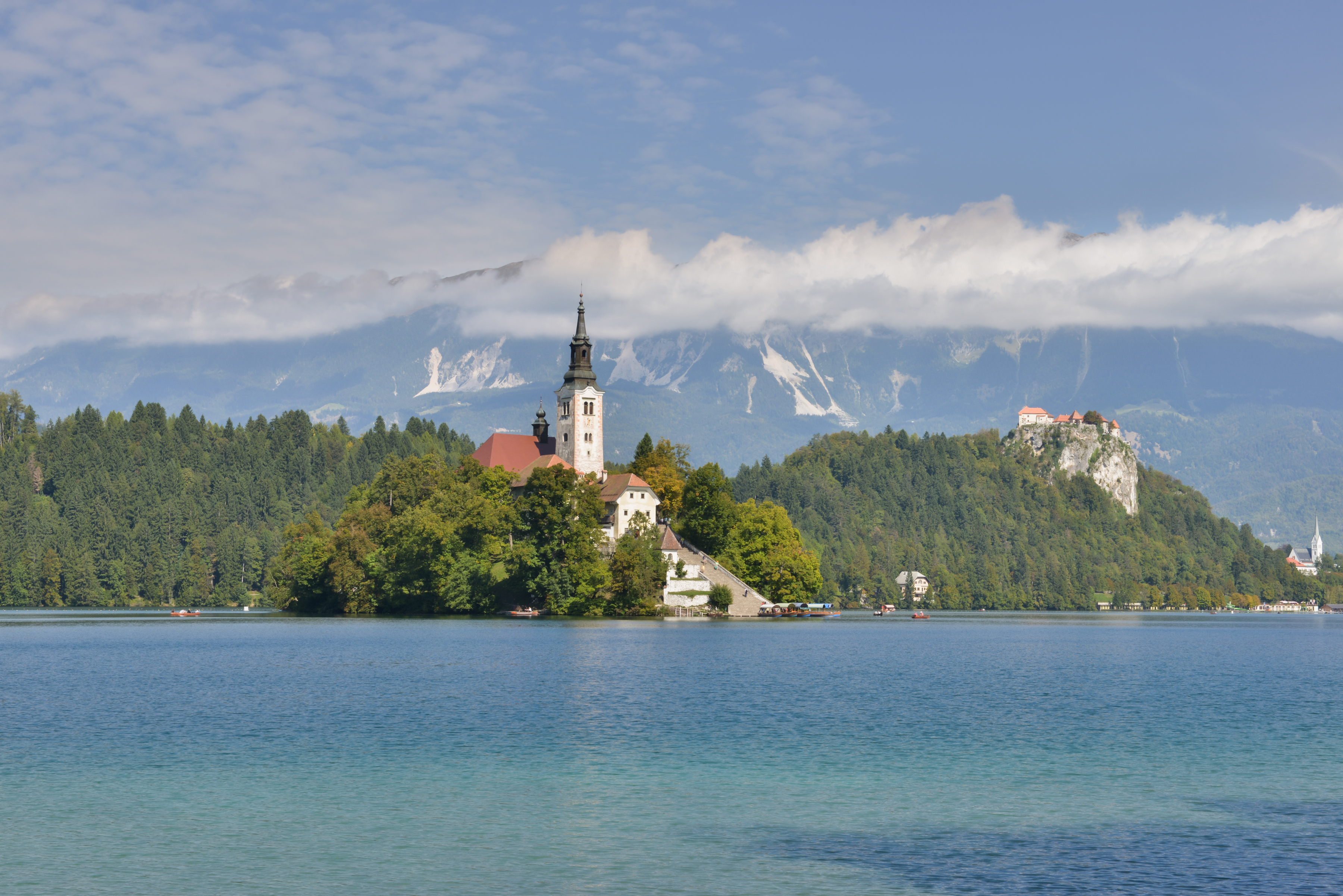 Assumption of Mary Church, Bled, Slovenia.